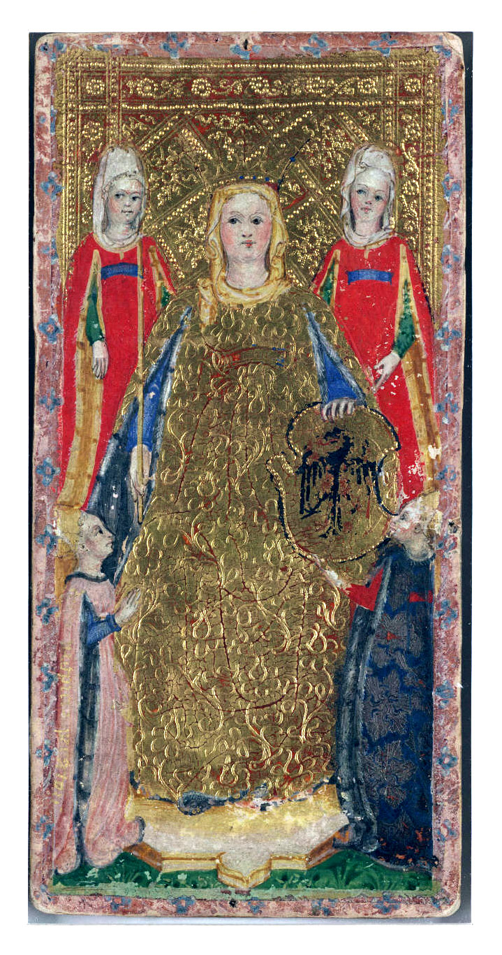 The Empress, from the Visconti tarot deck.